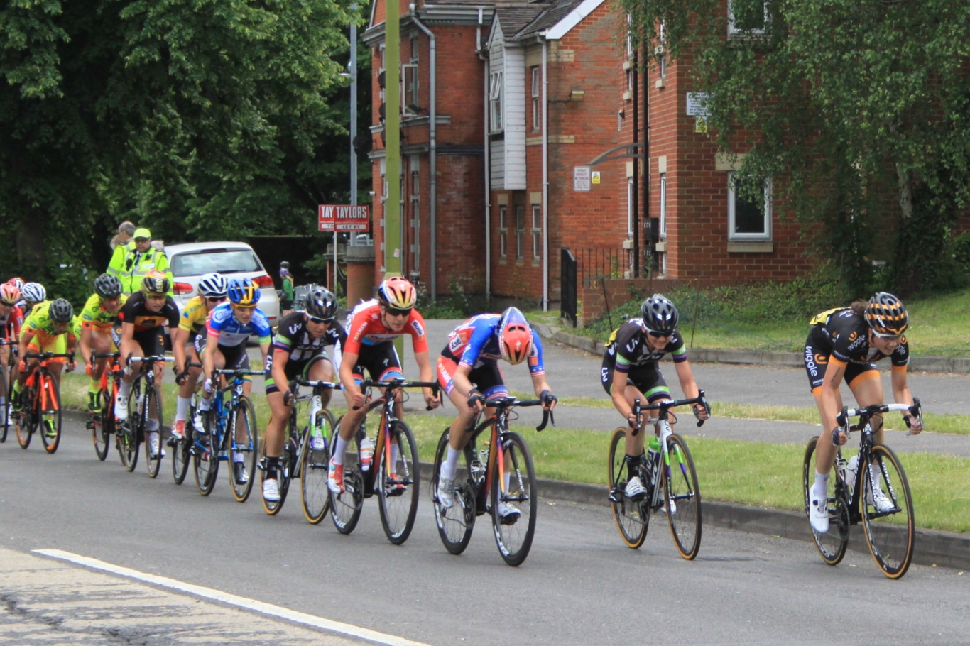 Audrey Cordon (from the Wiggle Honda team) and Claudia Lichtenberg (Liv Plantur) made a final breakaway from The 2015 Women's Tour but were caught just a couple of hundred metres from the finishing line in Hemel Hempstead by the peloton which was being led at the time by two Boels Dolman riders.